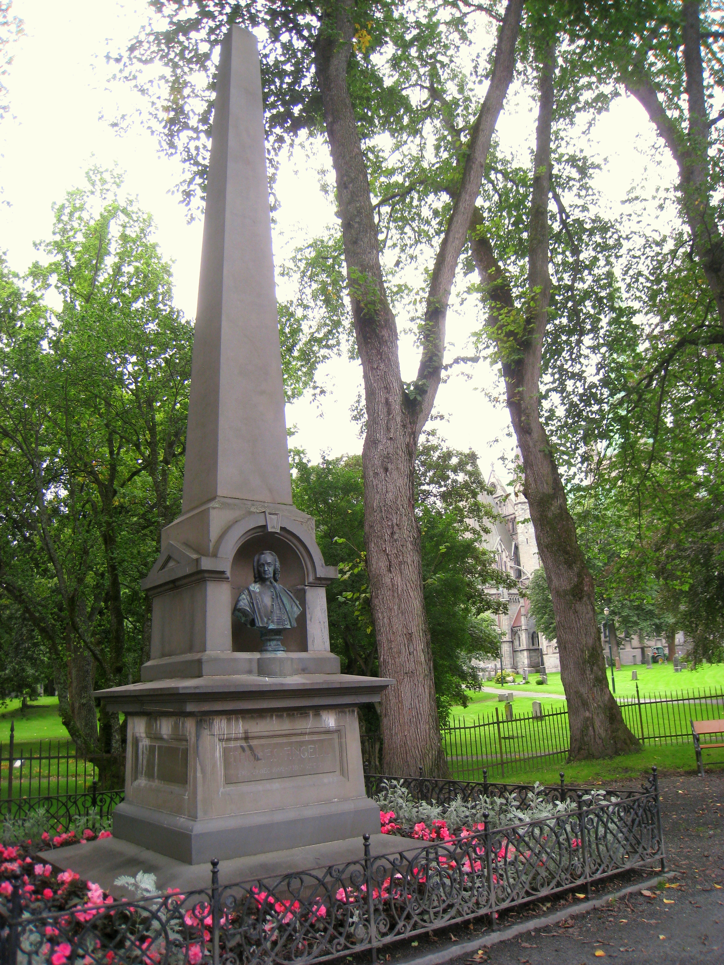 Thomas Angell monument, Trondheim, Norway.